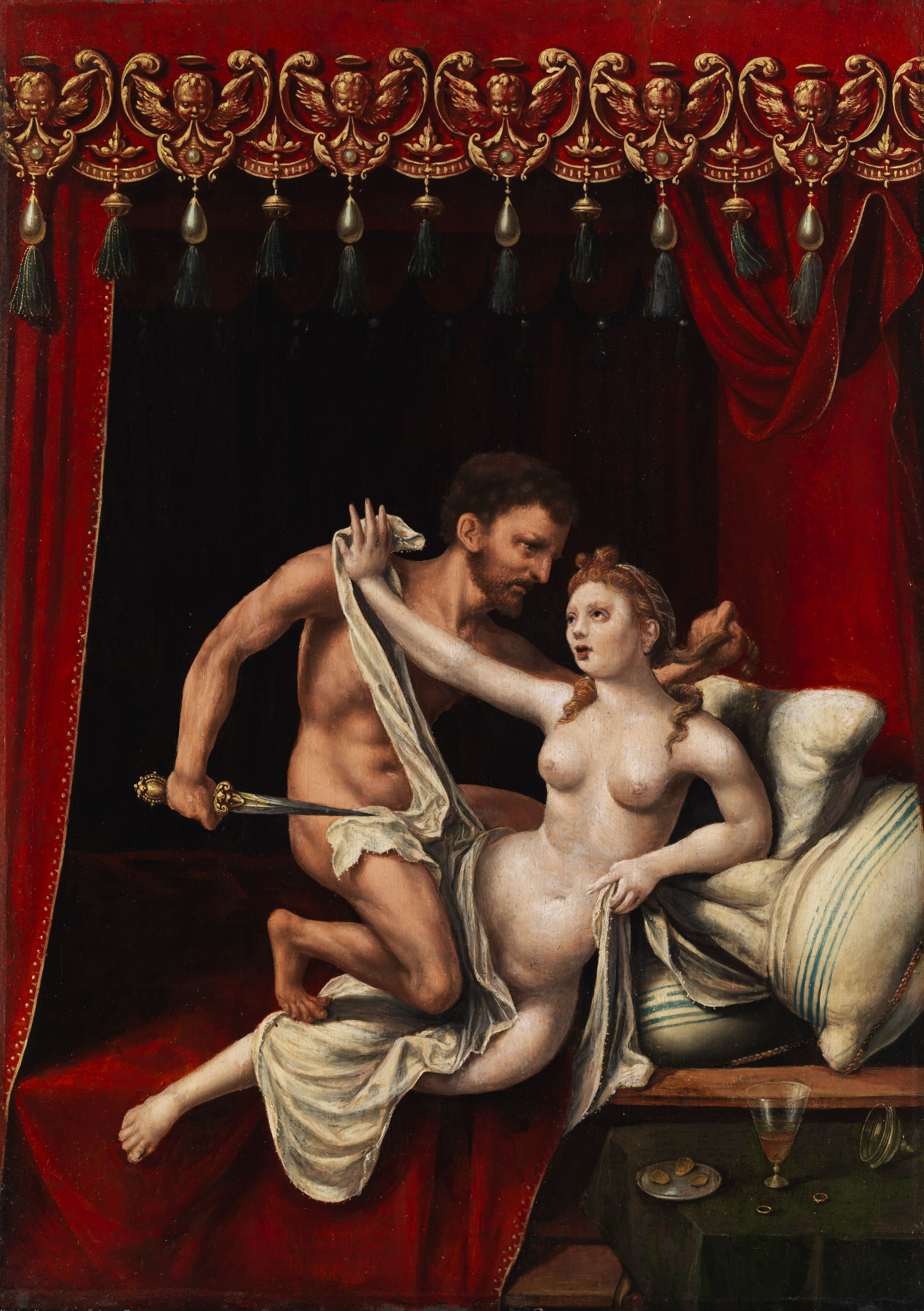 Rape of Lucretia. Oil on panel. 44 x 32 cm.